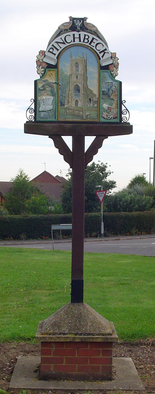 Signpost in Pinchbeck